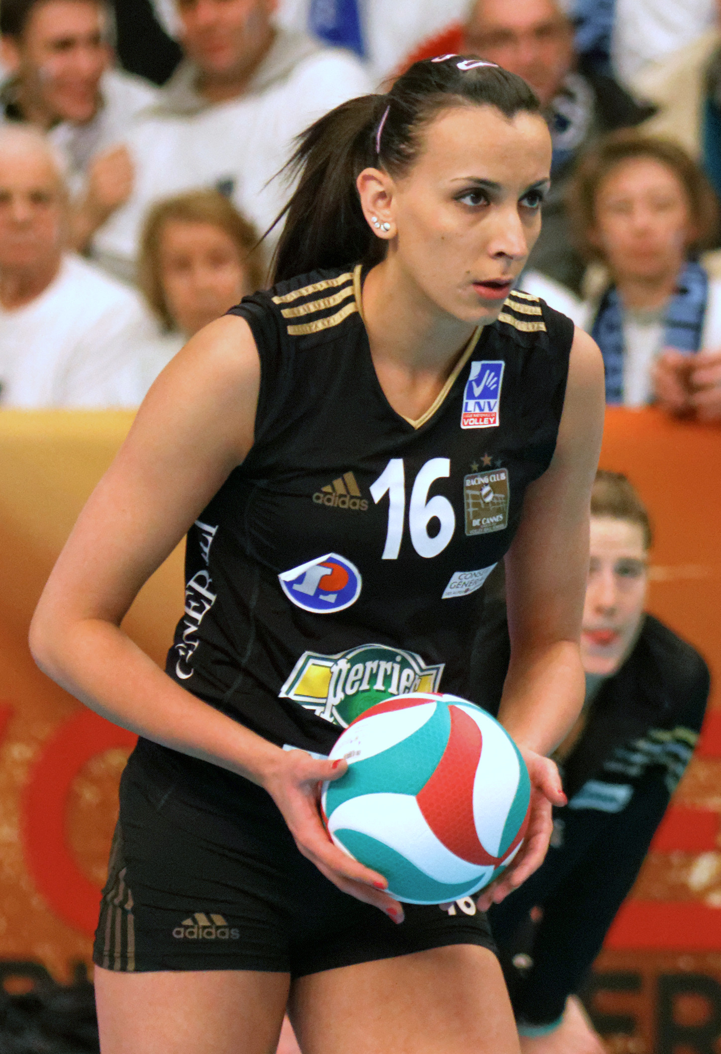 Final of the Volleyball French Cup, Racing Club de Cannes - Stella Étoile Sportive Calais, March 30, 2013.